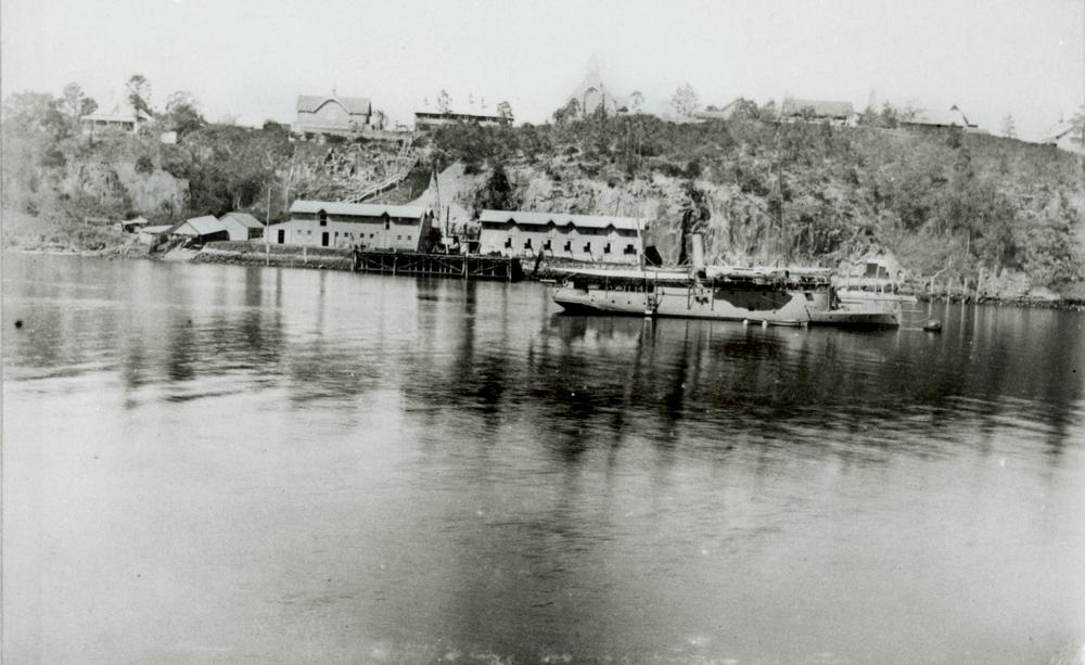 Naval Stores at Kangaroo Point, seen from across the Brisbane River The Naval Stores, located beneath the Kangaroo Point cliffs, on the banks of the Brisbane River. St. Mary's Anglican Church can be seen above the store on the right, on top of the cliffs. A ship is moored in front of the stores.